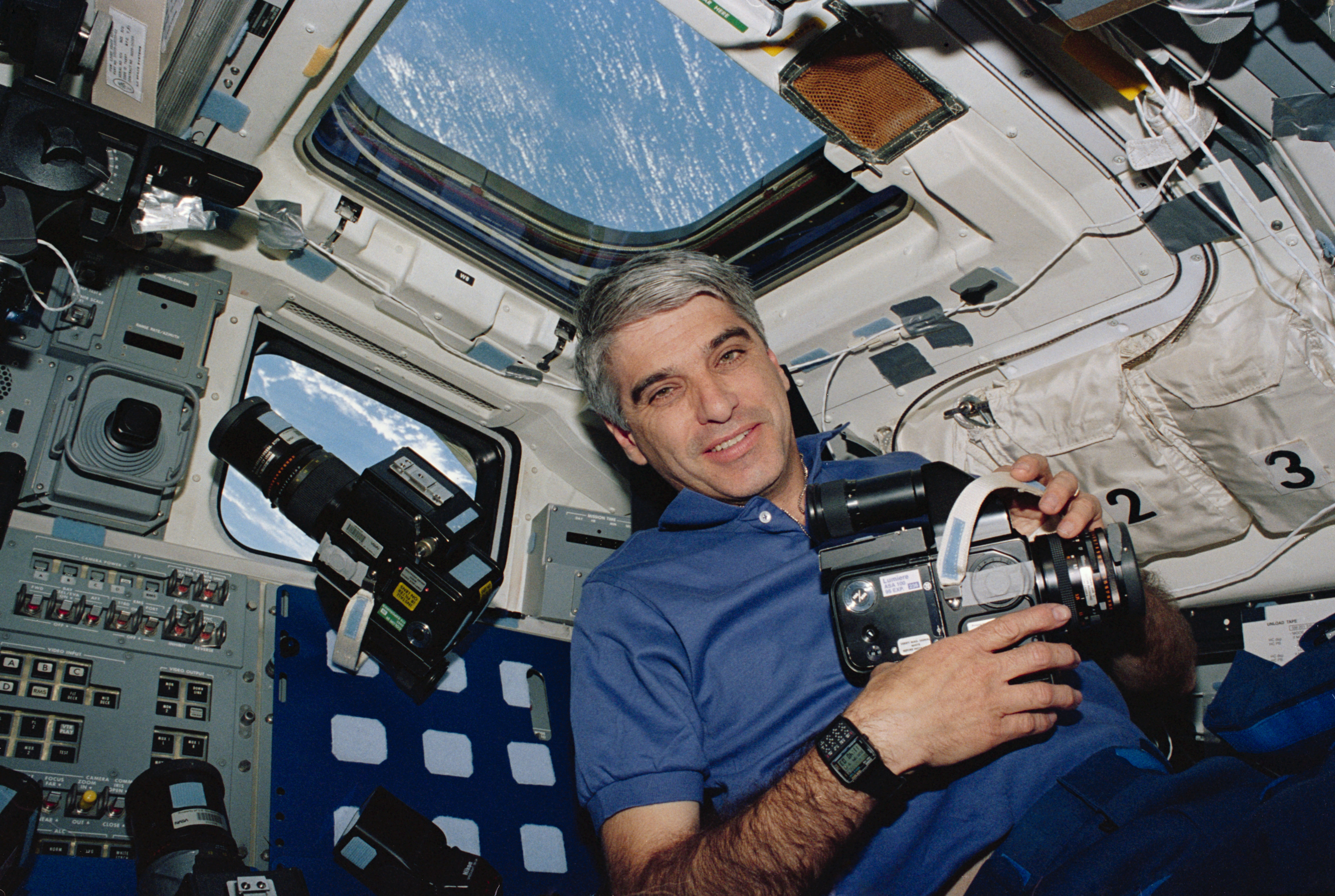 Astronaut Sidney M. Gutierrez, mission commander, pauses on the flight deck during Earth observations on the Space Shuttle Endeavour. Gutierrez, who was joined by five other NASA astronauts for 11-days in Earth orbit, holds a 70mm Hasselblad camera. The camera was one of several instruments used during the SRL mission to record an unprecedented compilation of data on planet Earth. Image #: sts059-19-004 Date: April 14, 1994